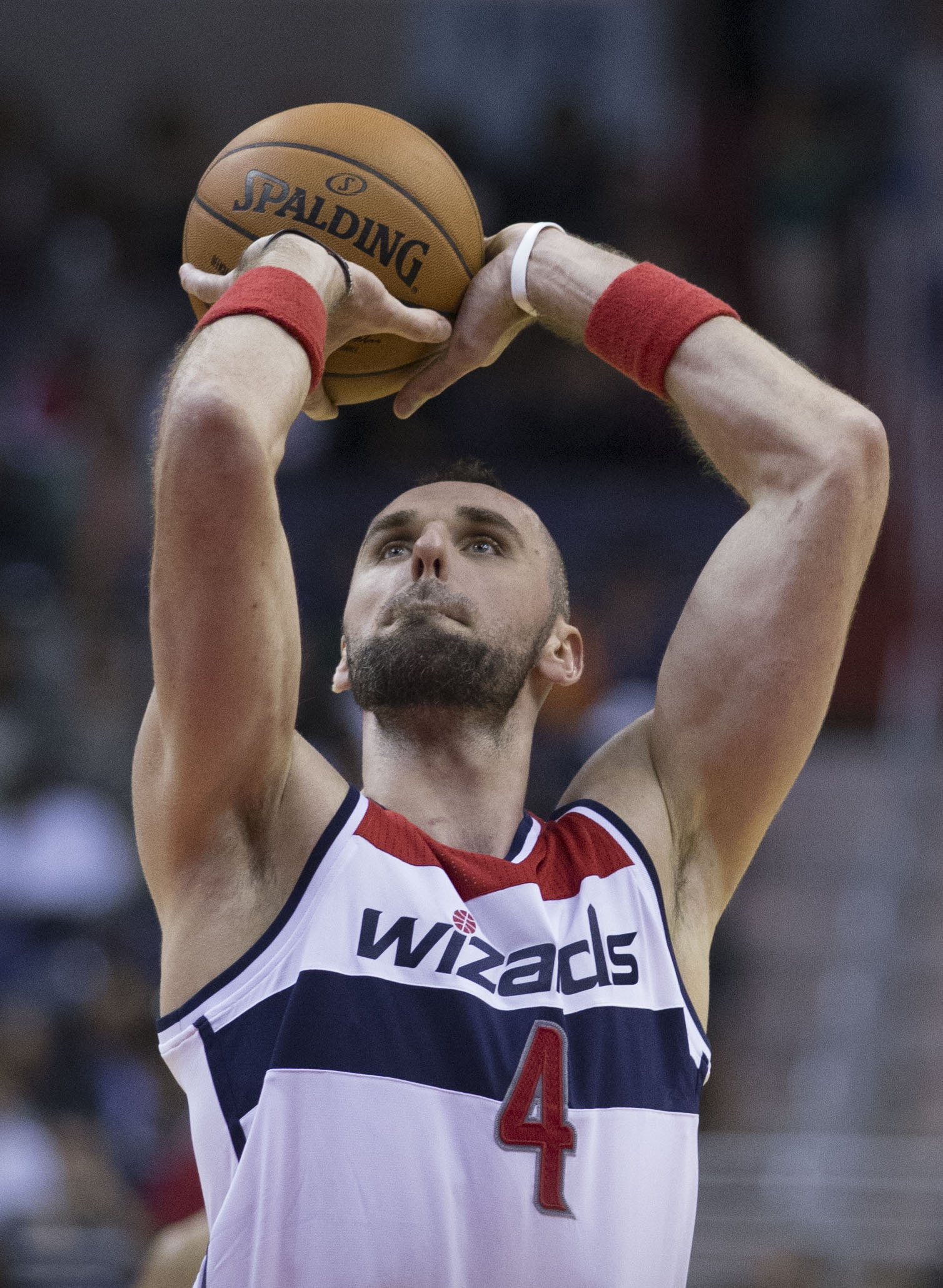 Pacers at Wizards 11/05/14